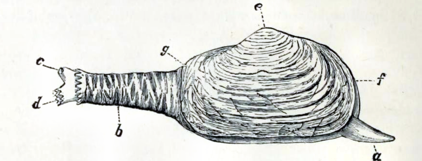 The blunt gaper (Mya truncata) Linneaus, 1758; Myidae